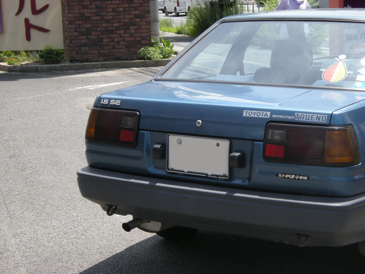 Toyota AE85 Sprinter Trueno 2-Door Coupe SE